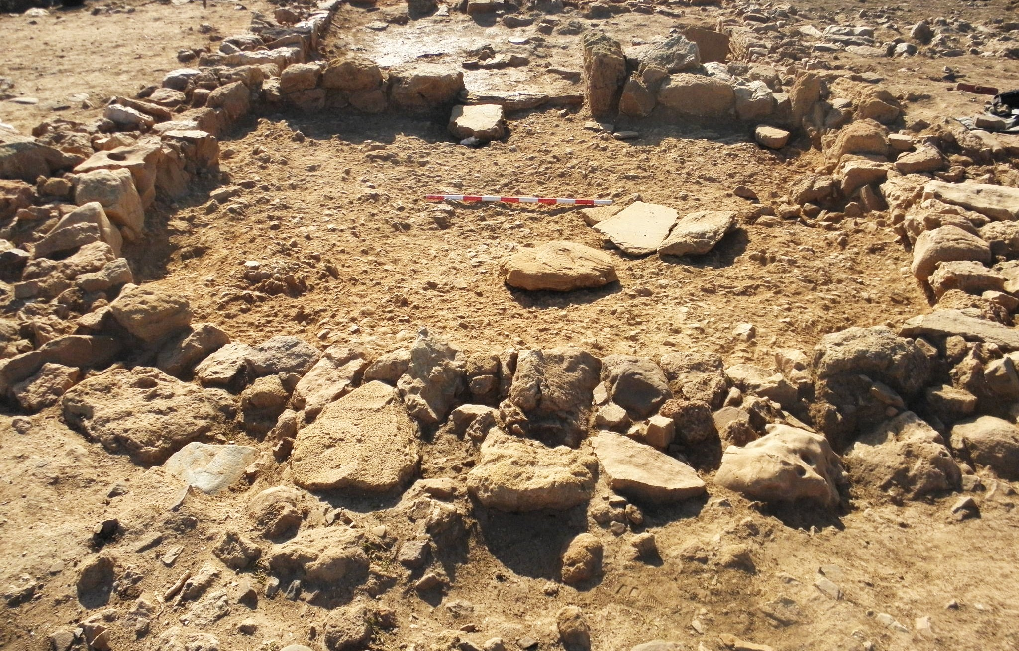 Apse from the basilica identified in Sanitja, after having excavated it in 2011.